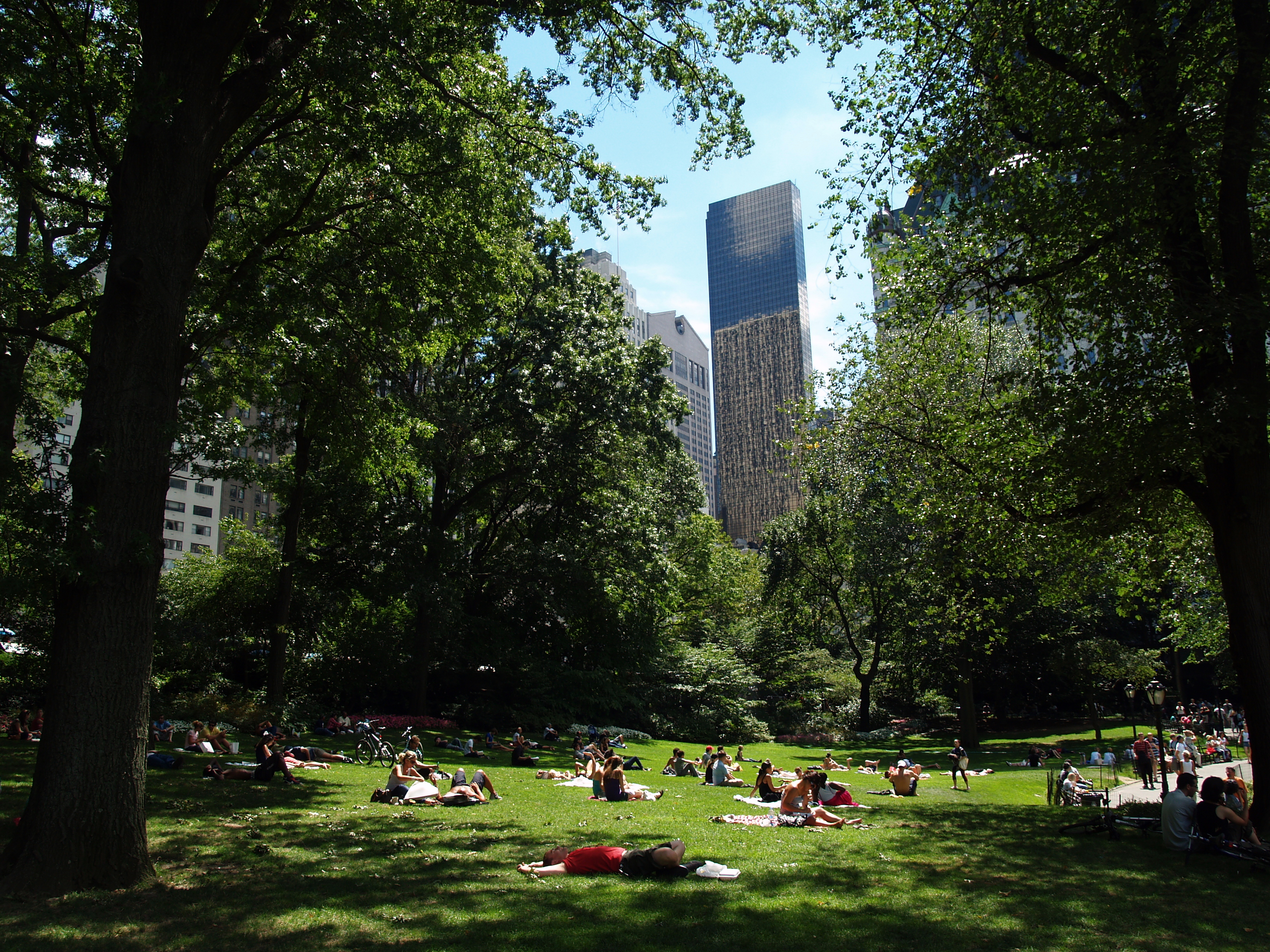 Lower Central Park at 1:00 p.m. Photographer's blog post about new photos of Central Park for Wikipedia.